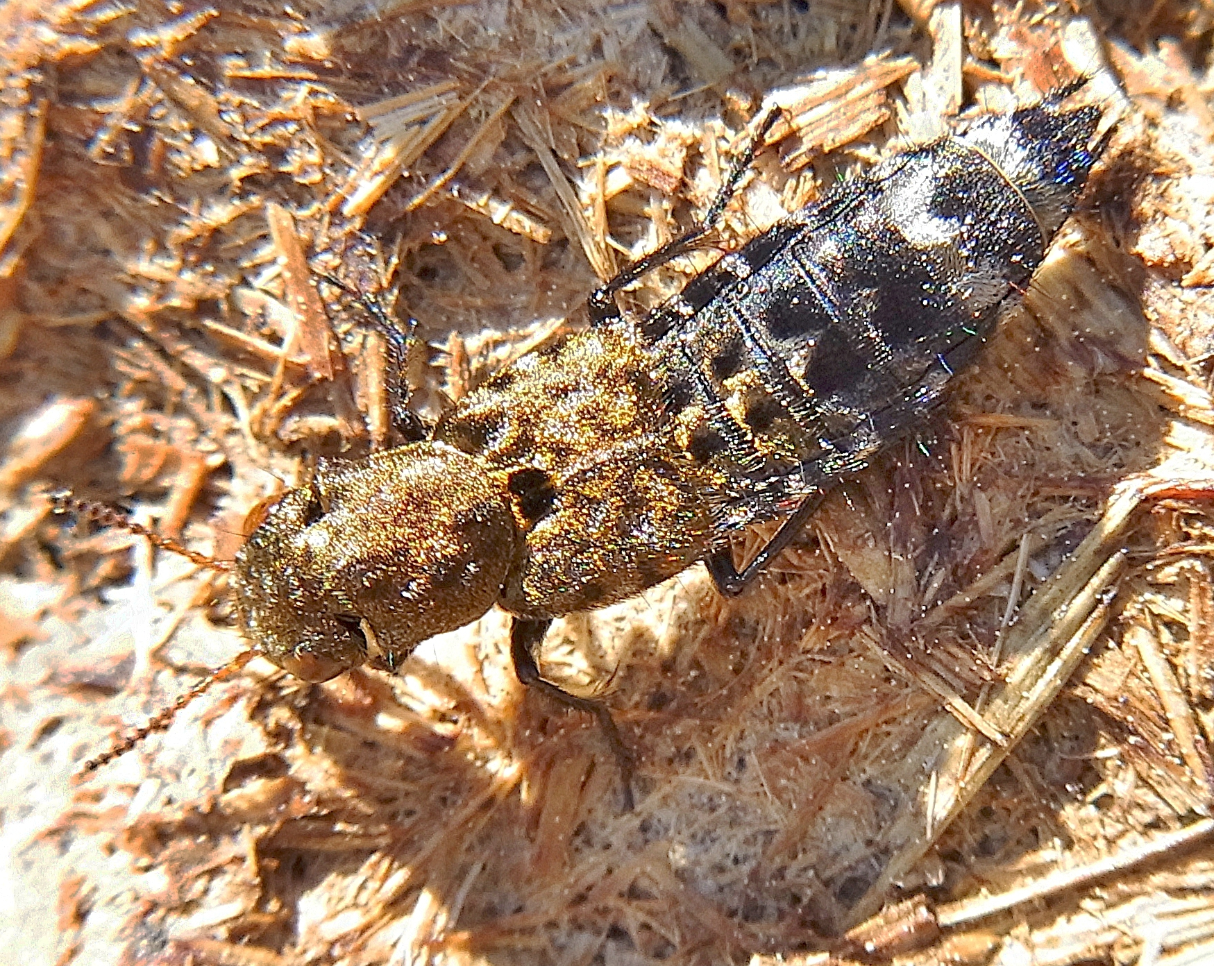 Ontholestes murinus from Northern Spain north of Huesca at river Guarga on cow-dung